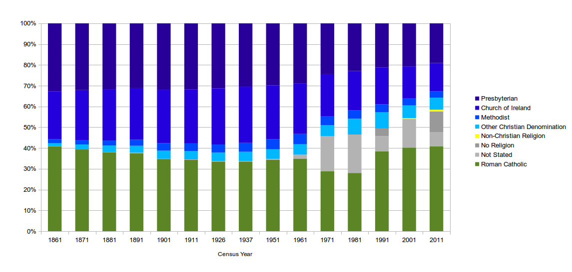 The percentage of respondents in each religious category of the census in Northern Ireland or the area that would later become Northern Ireland. Note that there was a high level of non-enumeration during the 1981 census mainly due to protests in Catholic areas about the Republican hunger strikes. [1]